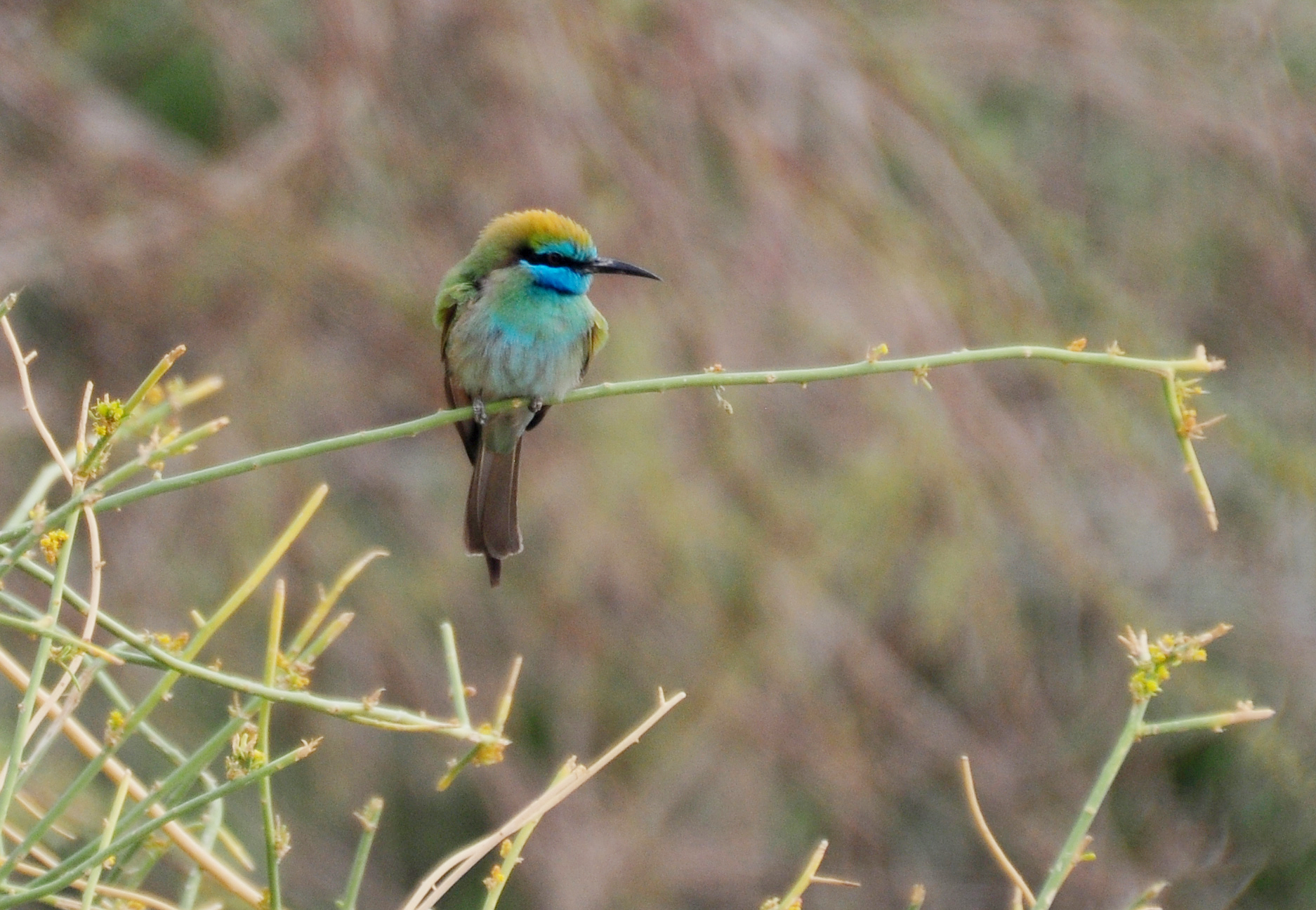 Bird at Ein Gedi, Israel